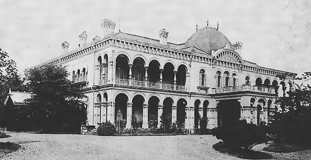 Rokumai-kan (built 1883, demolished 1940) at its completion.